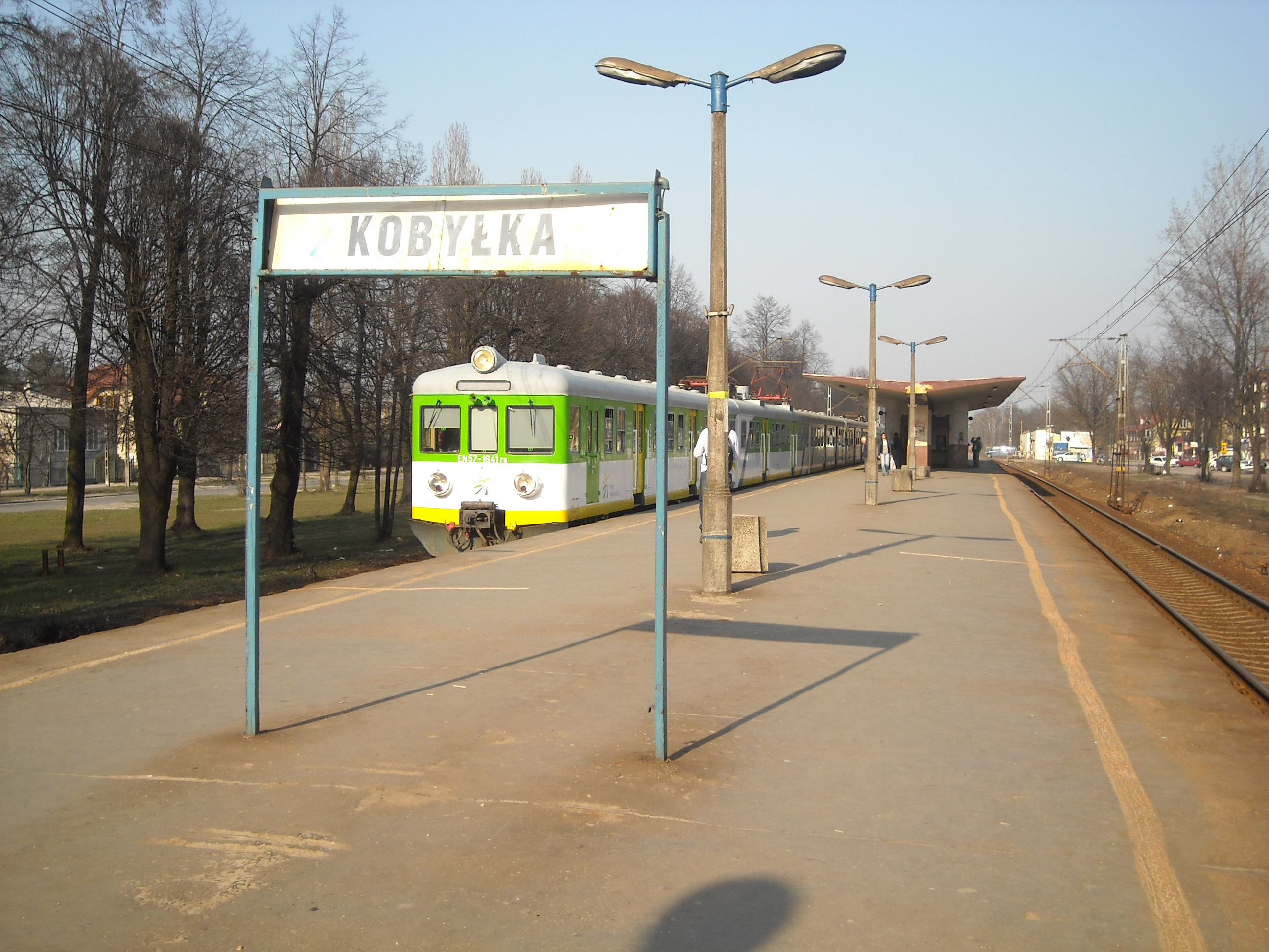 Kobyłka train station in Poland.